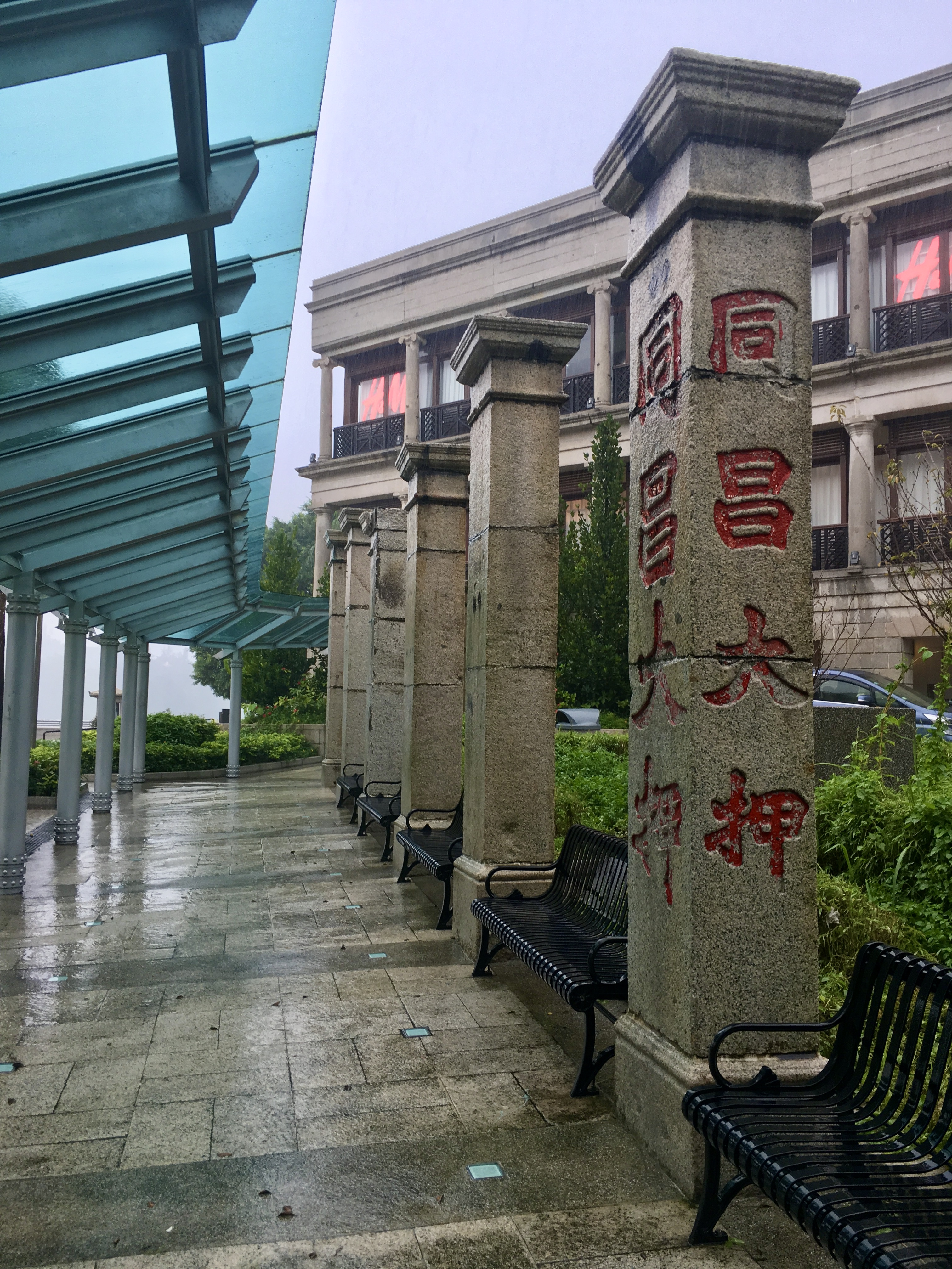 The pillars of Tung Cheong Pawn Shop were originally located at the junction of Argyle Street and Shanghai Street, they were later moved to Stanley to accommodate for the redevelopment project of Langham Place. (Photo taken on a rainy day)